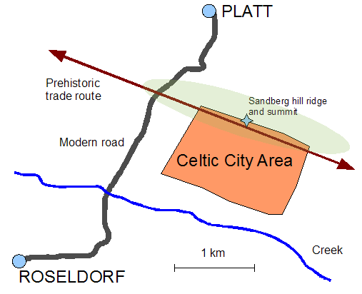 Schematic of the Celtic archaelological site at the Sandberg hill ridge between Platt and Roseldorf (Weinviertel, Lower Austria)